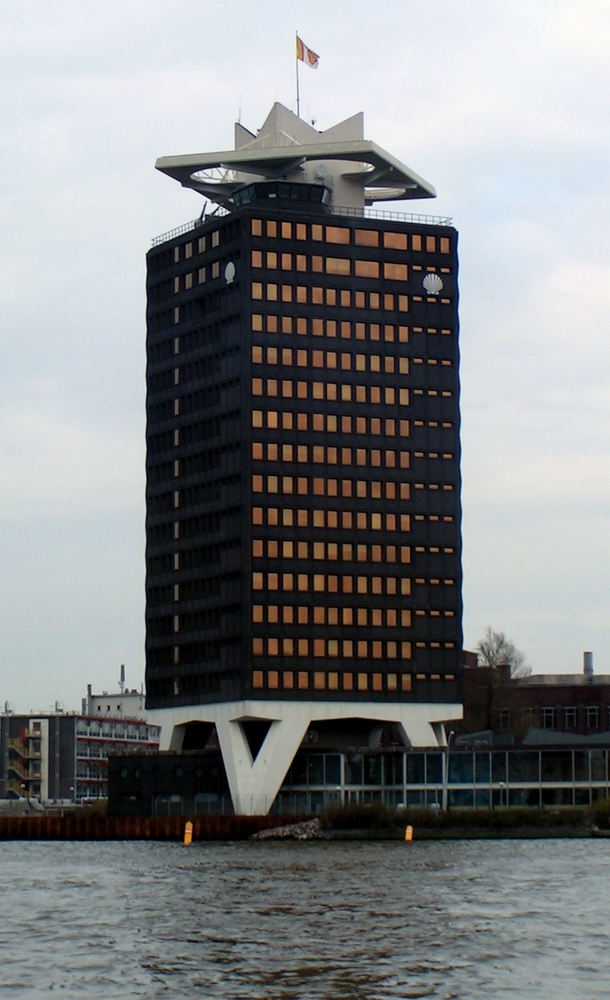 Royal Dutch Shell Research Centre in Amsterdam